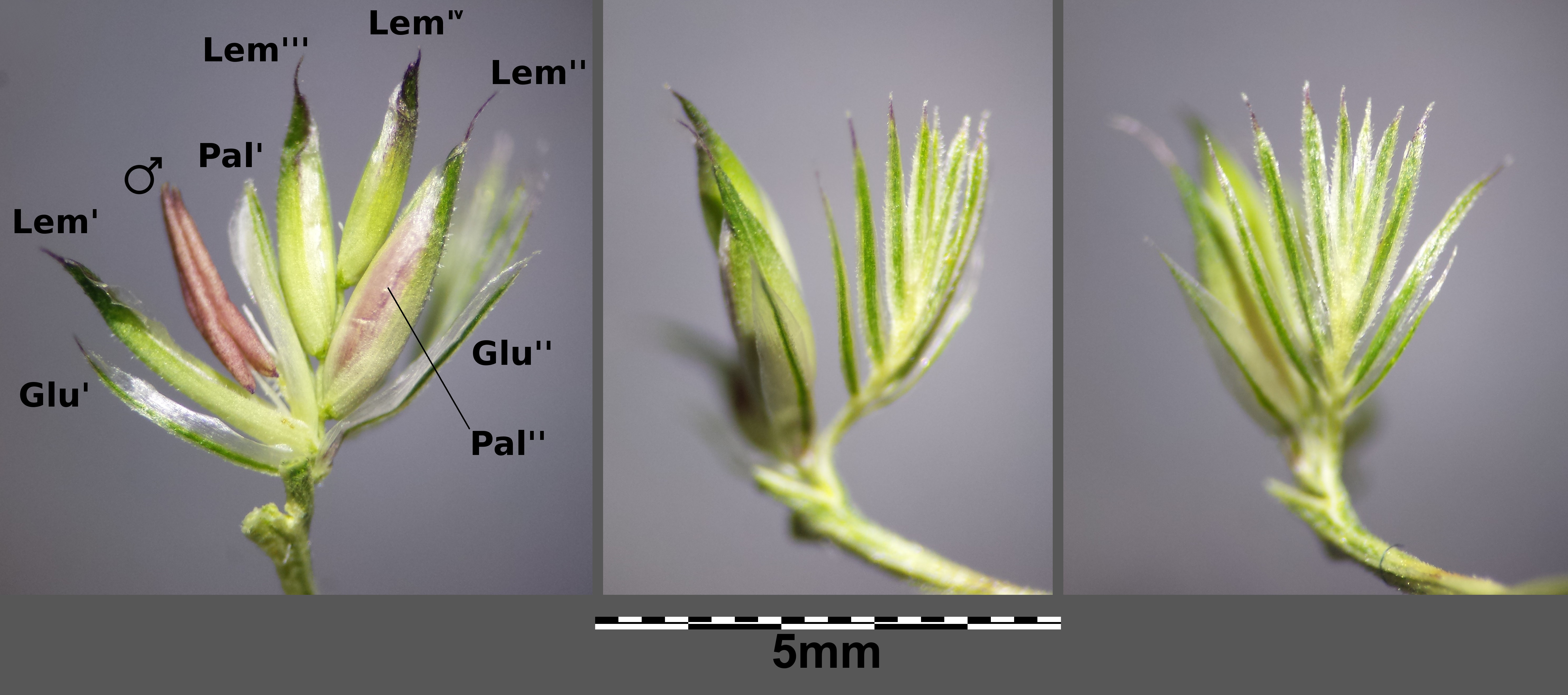 Spikelet with four flowers. At base two Glumae (Glu), each flower enfolded within a Lemma (Lem) and Palea (Pal). At base also a double-pectinate sterile spikelet. Taxonym: Cynosurus cristatus ss Fischer et al. EfÖLS 2008 ISBN 978-3-85474-187-9 Location: near Arbesbach, Groß-Gerungs, district Zwettl, Lower Austria - ca. 850 m a.s.l. Habitat: wet meadow